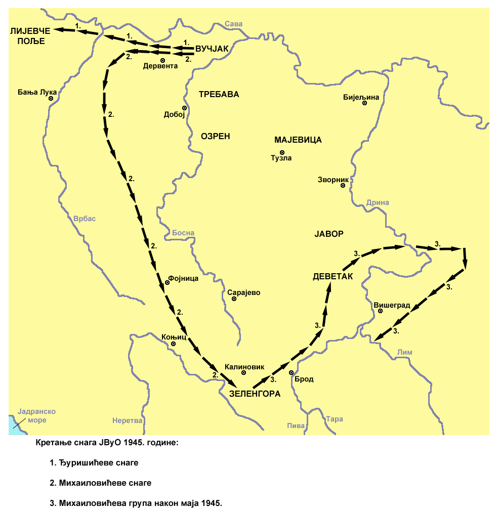 Movement of JVuO troops (Đurišić and Mihailović column) in spring 1945.